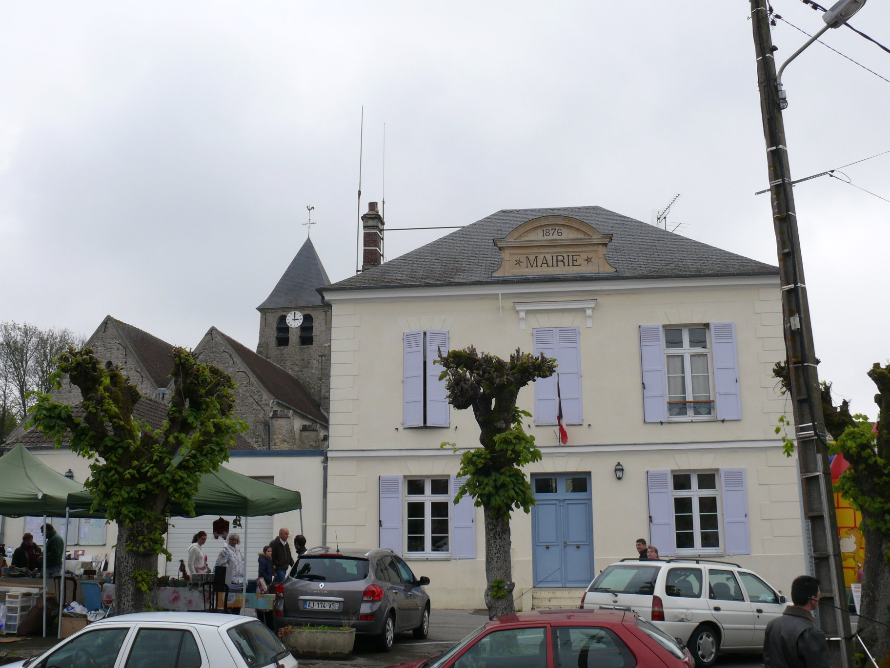 The town hall of Brégy (Oise, Picardie, France).